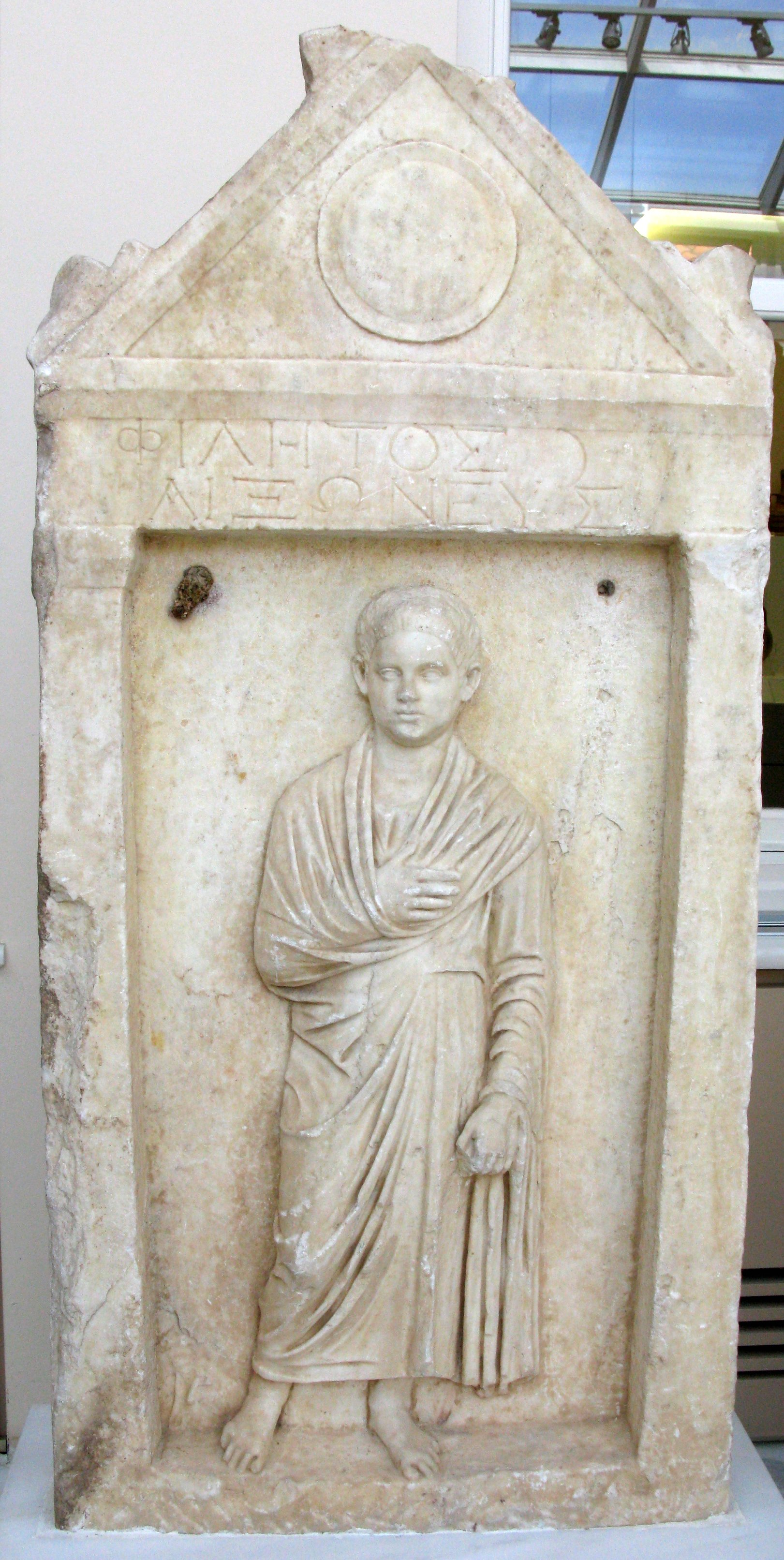 Grave stele of Philetos, son of Philetos, of the deme of Aixone (Ano Glypdada). Before the middle of the 1st c. AD. Used as the cover for a conduit near the Sacret Way. Kerameikos, Ancient Graveyard, Athens, Greece.